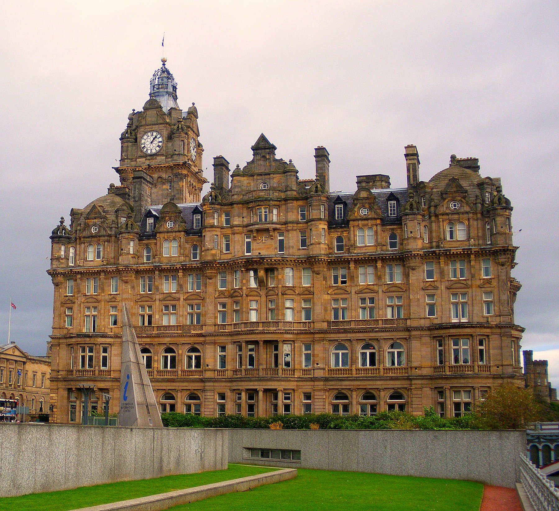 The Balmoral Hotel in Edinburgh, Scotland.